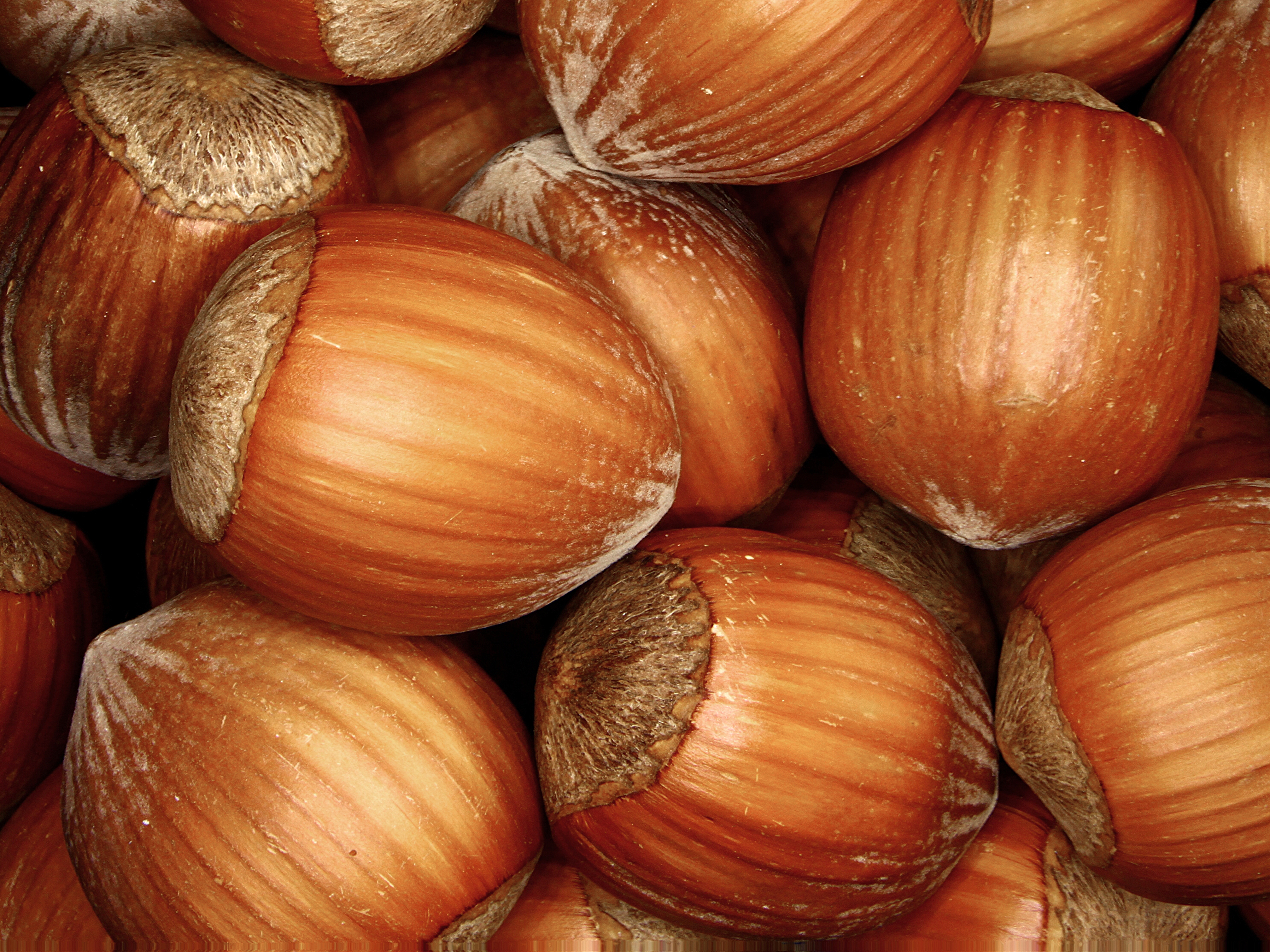 Corylus avellana, Betulaceae, Common Hazel, nuts; Karlsruhe, Germany.